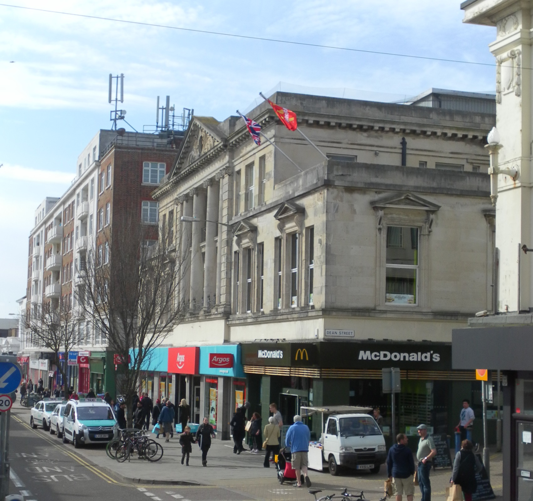 An example of some of the 1930s commercial and retail buildings on the north side of Western Road, Brighton, City of Brighton and Hove, England. The red-brick building in the distance is Mitre House.